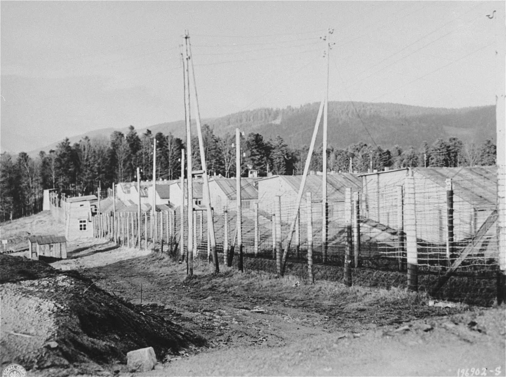 see title